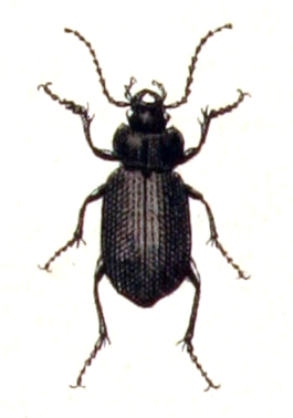 Licinus silphoides, from Calwer's Käferbuch, Table 5, Picture 6. Taxonomy was updated to 2008, using mostly the sites Fauna Europaea and BioLib. Please contact Sarefo if the determination is wrong!